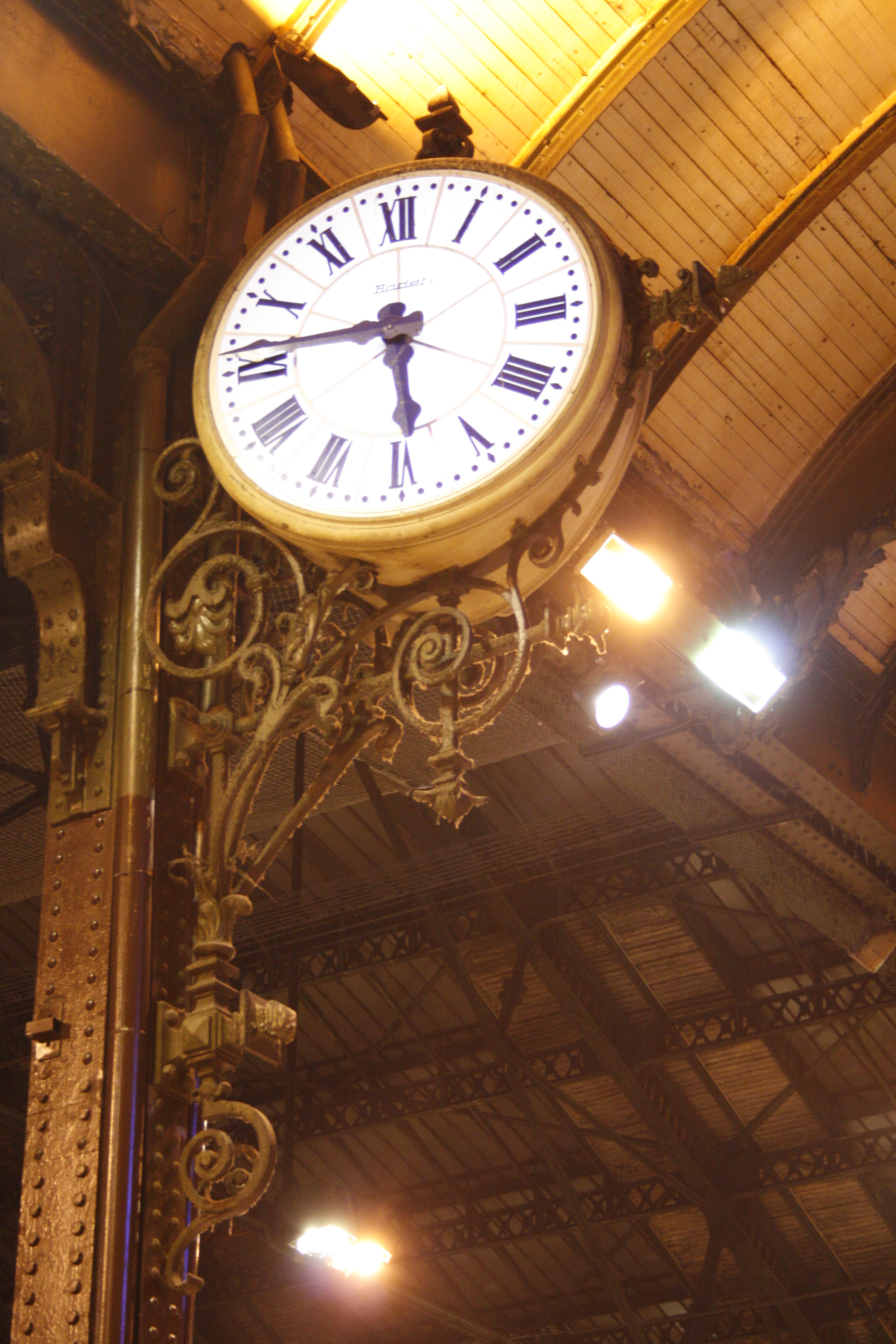 A clock inside the Paris train station Gare de Lyon